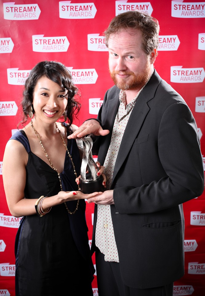 Maurissa Tancharoen and Joss Whedon at the 2009 Streamy awards